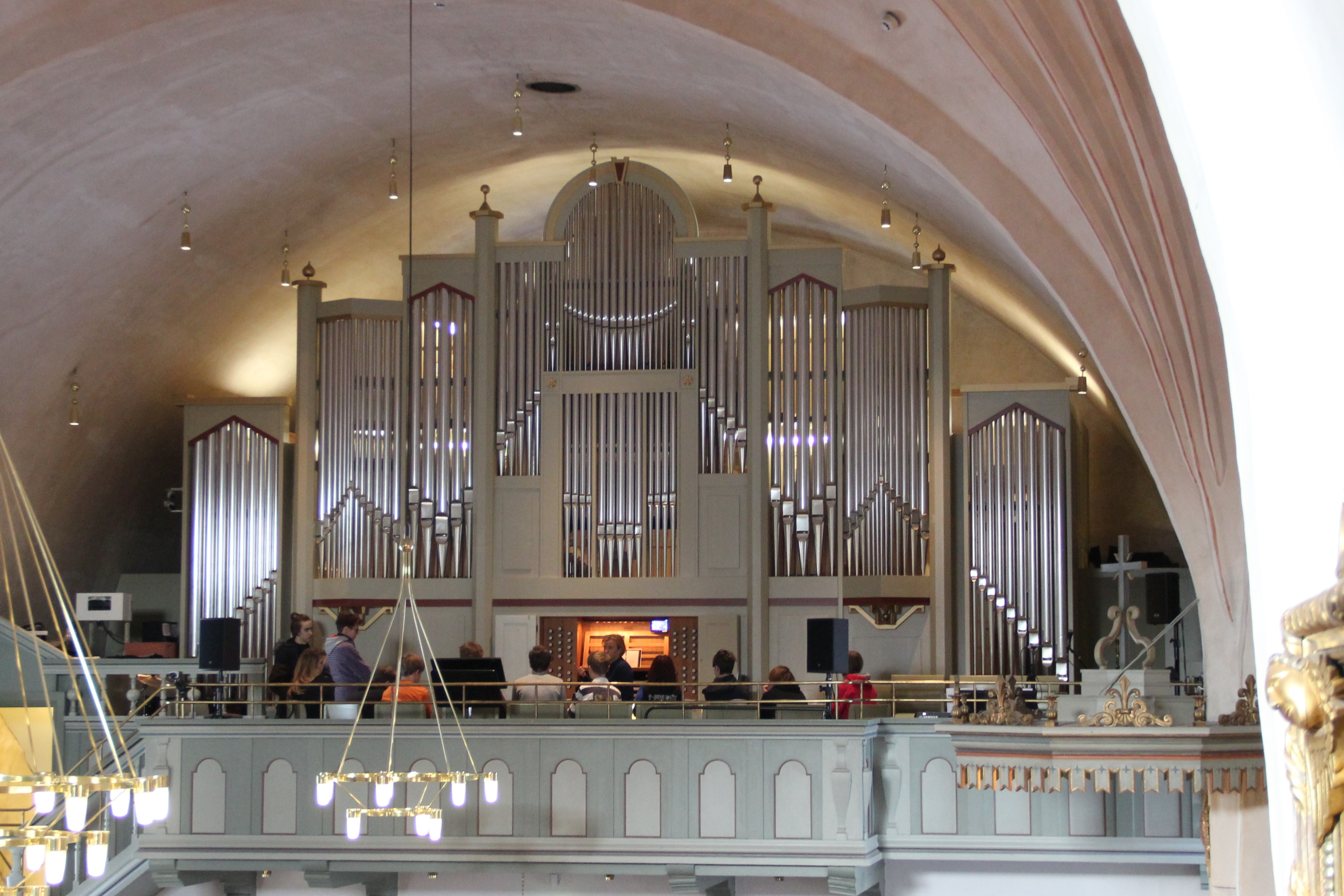 Organ in Espoo Cathedral, built in 2012 by Organ Builder Veikko Virtanen